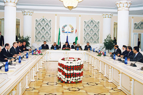 DUSHANBE. Expanded meeting with Tajik President Emomali Rakhmonov and Afghan President Burhanuddin Rabbani.